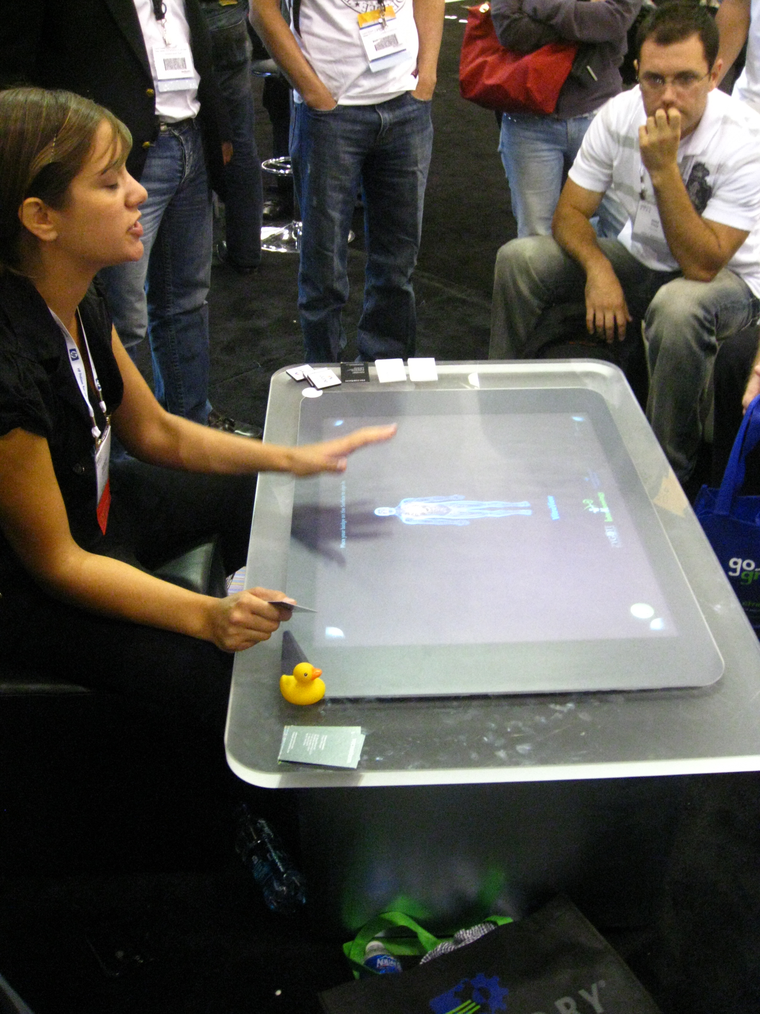 Microsoft Surface demoed